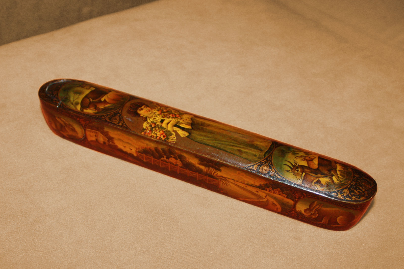 Qalamdan